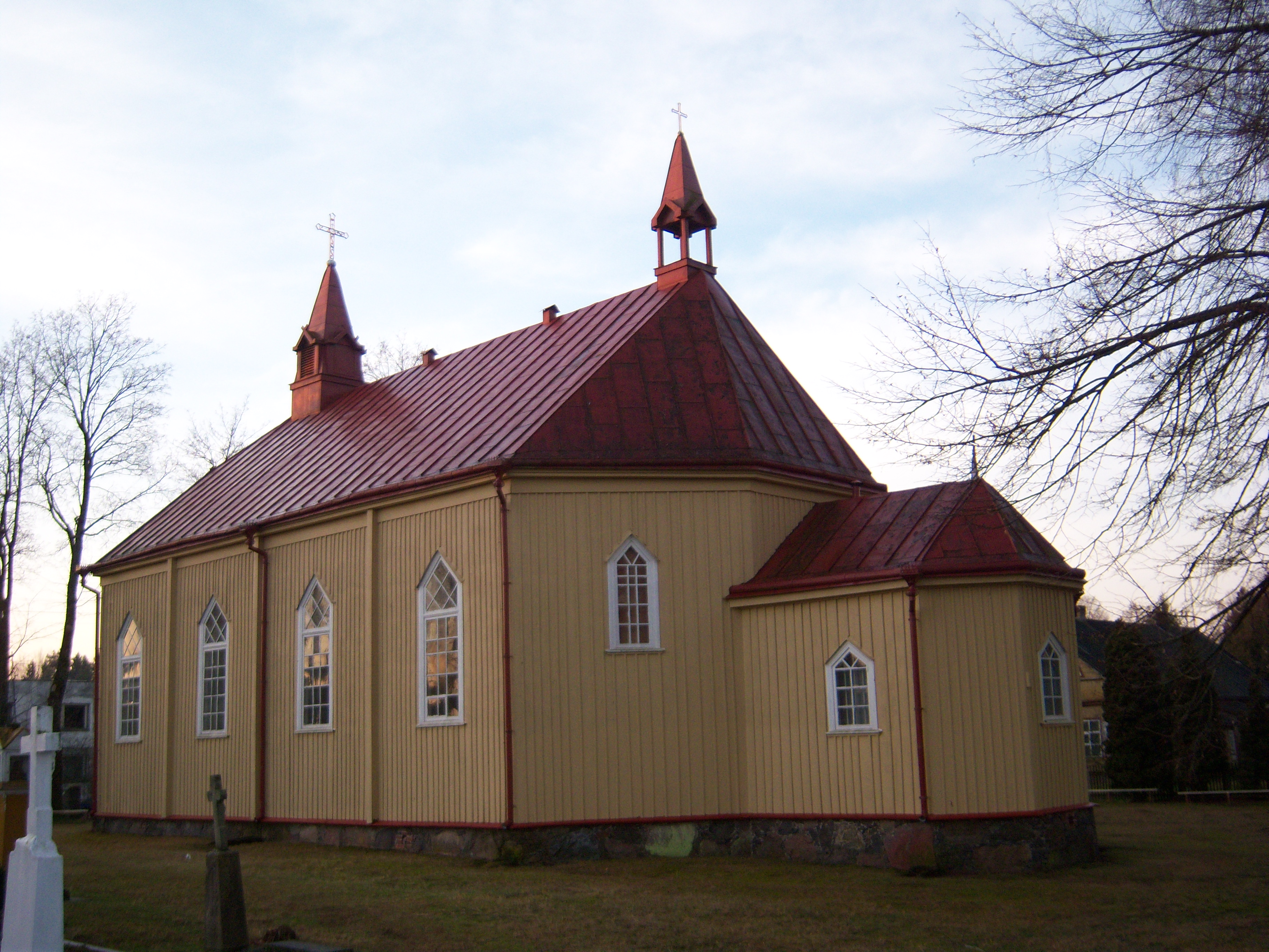 Paupys Church, Raseiniai District, Lithuania